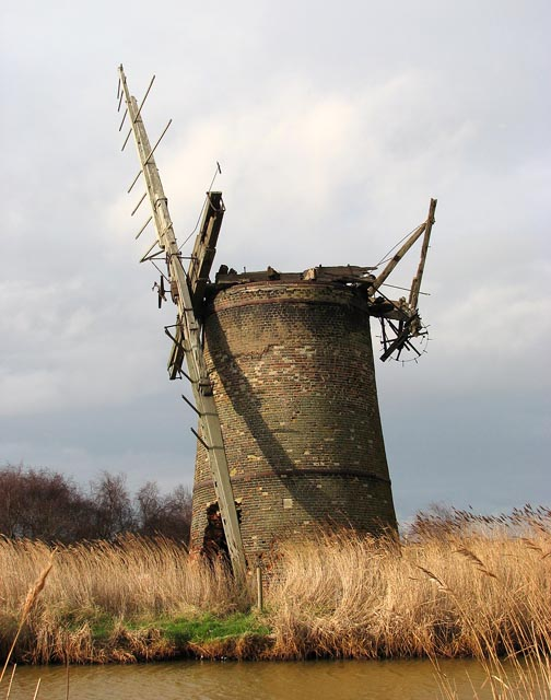 The derelict Brograve drainage mill Brograve drainage mill is located on Brograve Levels, beside the New Waxham Cut. Constructed of red brick this tower mill was built in 1771 by Sir Berney Brograve, 1st Baronet (1726-1797) for the purpose of draining the Brograve Levels into the Waxham New Cut. The mill once had a boat-shaped cap with a petticoat and an 8-bladed fantail with a tailpole, and it carried two pairs of patent shuttered sails which powered an internal turbine pump. It is believed to have been disused since the 1930s. Today only two stocks and two stubs of the original sails remain and the derelict and unsafe structure is leaning westwards.